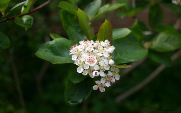 Name Aronia melanocarpa Subfamily Maloideae Family Rosaceae Flowers and leaves